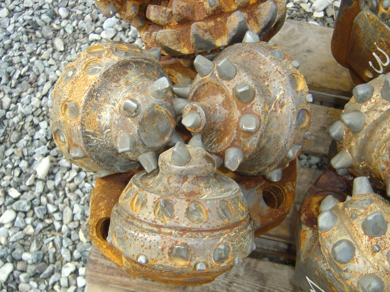 Damaged Drill Bit, see all three cones are missing inserts. Philbentley 20:09, 22 October 2006 (UTC)